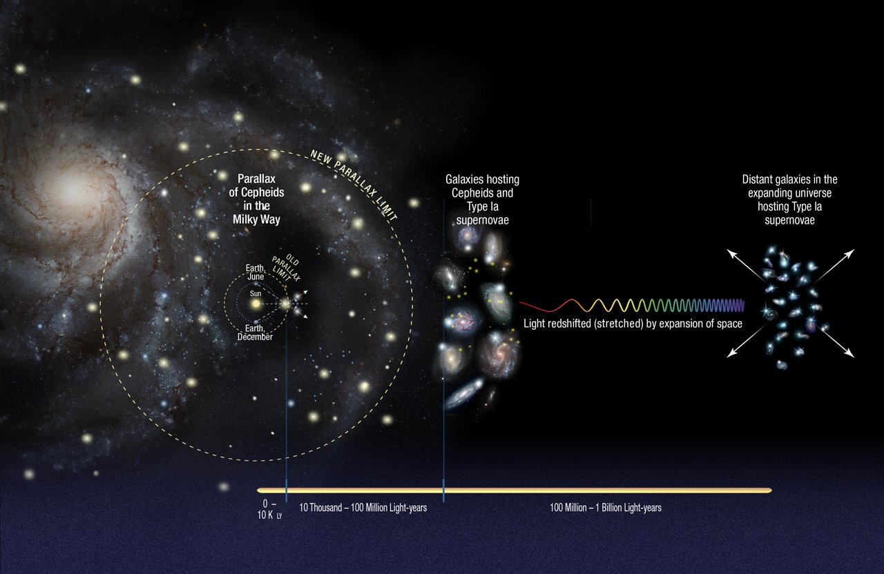 For the calibration of relatively short distances the team observed Cepheid variables. These are pulsating stars which fade and brighten at rates that are proportional to their true brightness and this property allows astronomers to determine their distances. The researchers calibrated the distances to the Cepheids using a basic geometrical technique called parallax. With Hubble’s sharp-eyed Wide Field Camera 3 (WFC3), they extended the parallax measurements further than previously possible, across the Milky Way galaxy. To get accurate distances to nearby galaxies, the team then looked for galaxies containing both Cepheids and Type Ia supernovae. Type Ia supernovae always have the same intrinsic brightness and are also bright enough to be seen at relatively large distances. By comparing the observed brightness of both types of stars in those nearby galaxies, the team could then accurately measure the true brightness of the supernova. Using this calibrated rung on the distance ladder the accurate distance to additional 300 type Ia supernovae in far-flung galaxies was calculated. They compare those distance measurements with how the light from the supernovae is stretched to longer wavelengths by the expansion of space. Finally, they use these two values to calculate how fast the universe expands with time, called the Hubble constant.